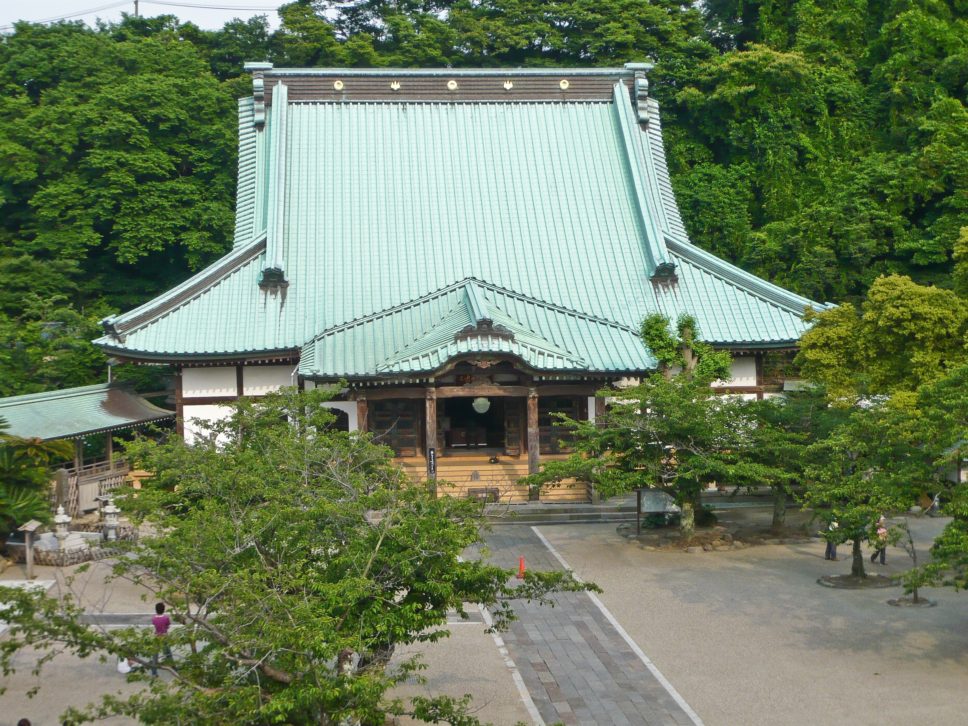 Kōmyō-ji's Main Hall in Kamakura, so big it can be seen from the opposite side of the bay.